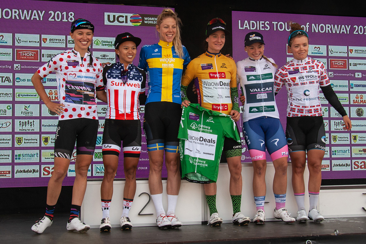 From left: Katarzyna Niewiadoma (polkadot jersey), Coryn Rivera (third overall), Emilia Fahlin (second overall), Marianne Vos (yellow jersey and green jersey), Chiara Consonni (white jersey) and Susanne Andersen (best Norwegian jersey).